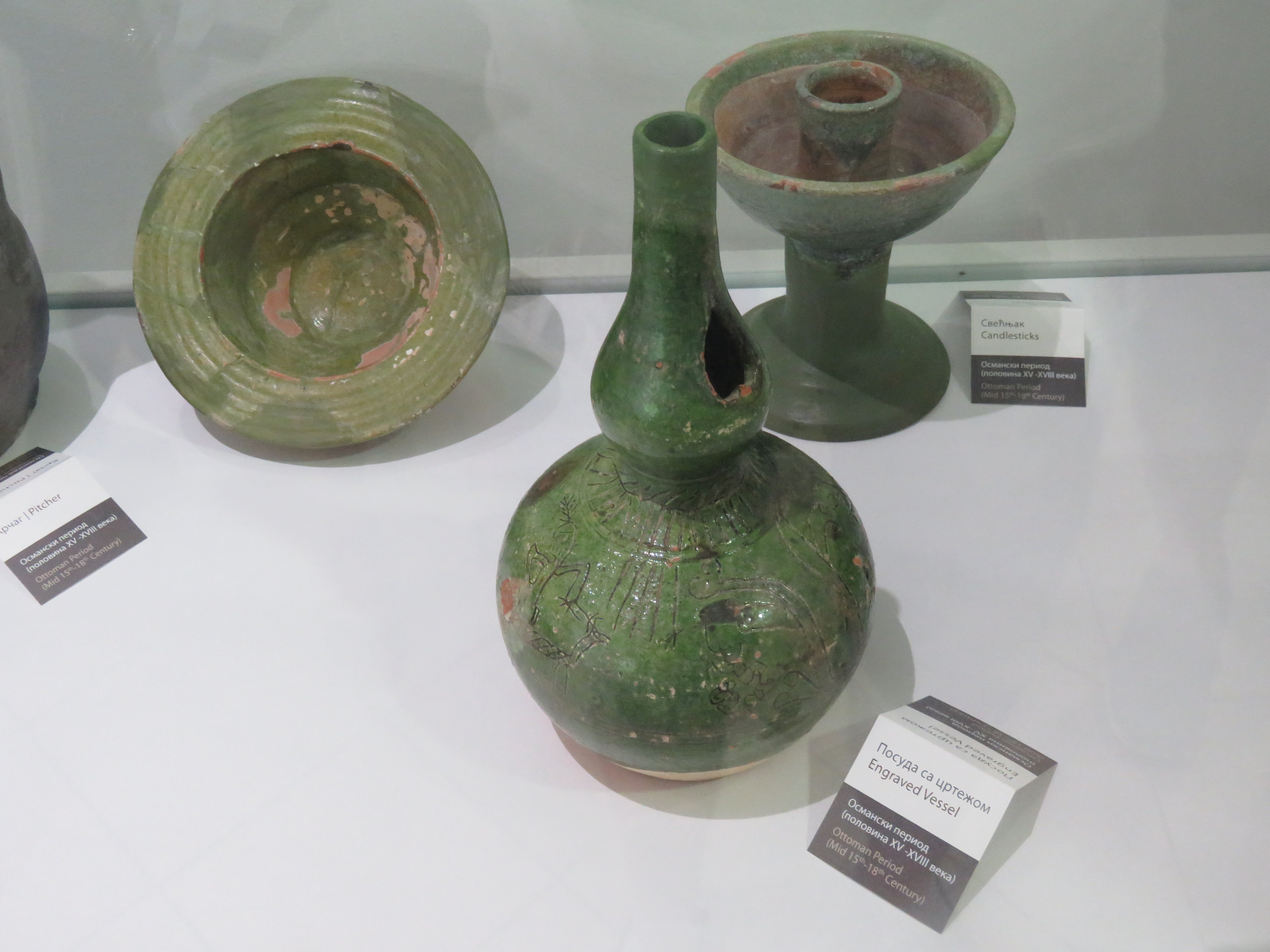 Museum in Golubac Fortress